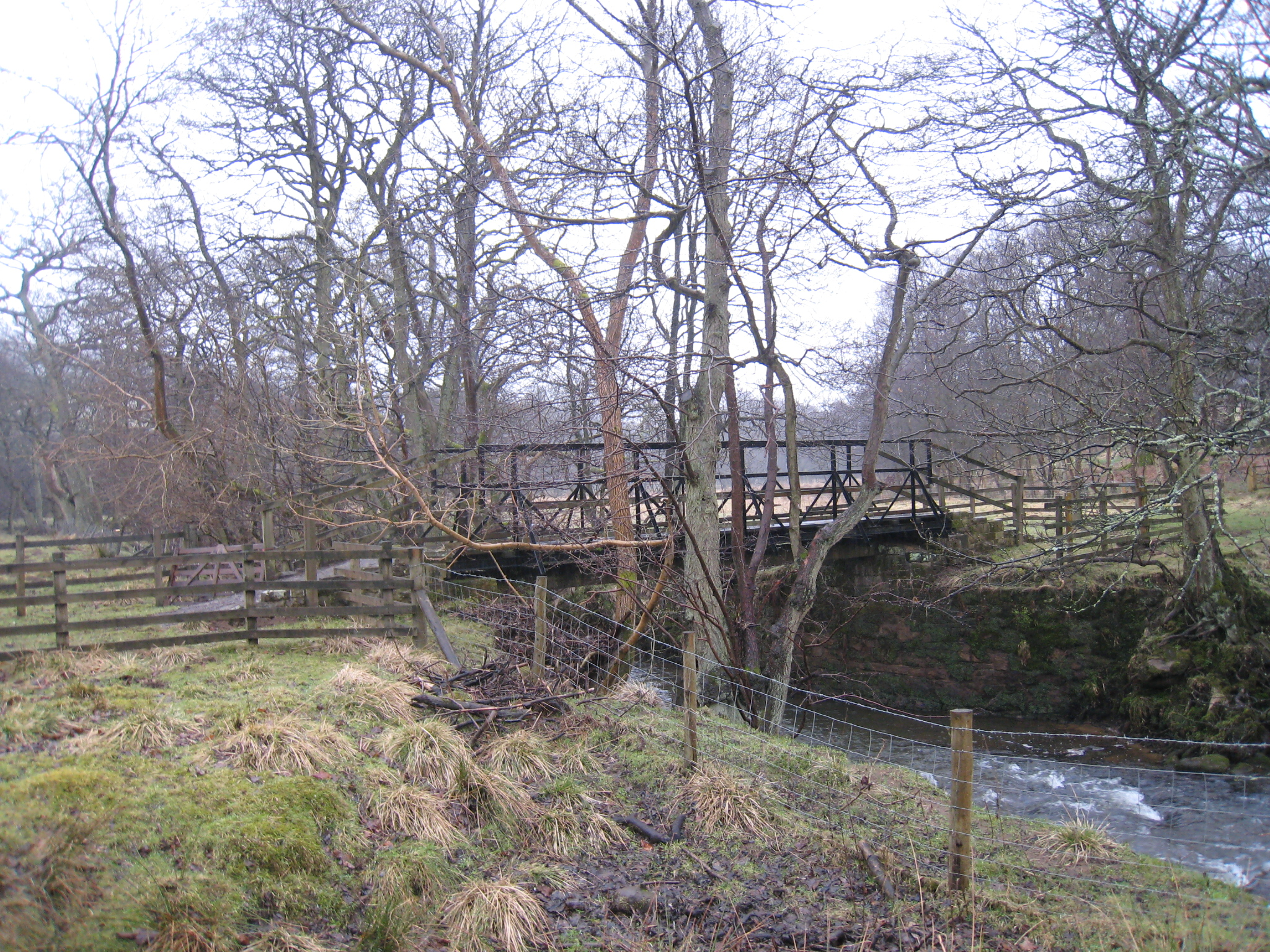 Footbridge over the River Seph This photograph shows a view of the footbridge that carries the public footpath (from the B1257 road to Benhill Bank) over the River Seph. The picture was taken looking in a south-south-westerly direction towards Lincoln Slack.